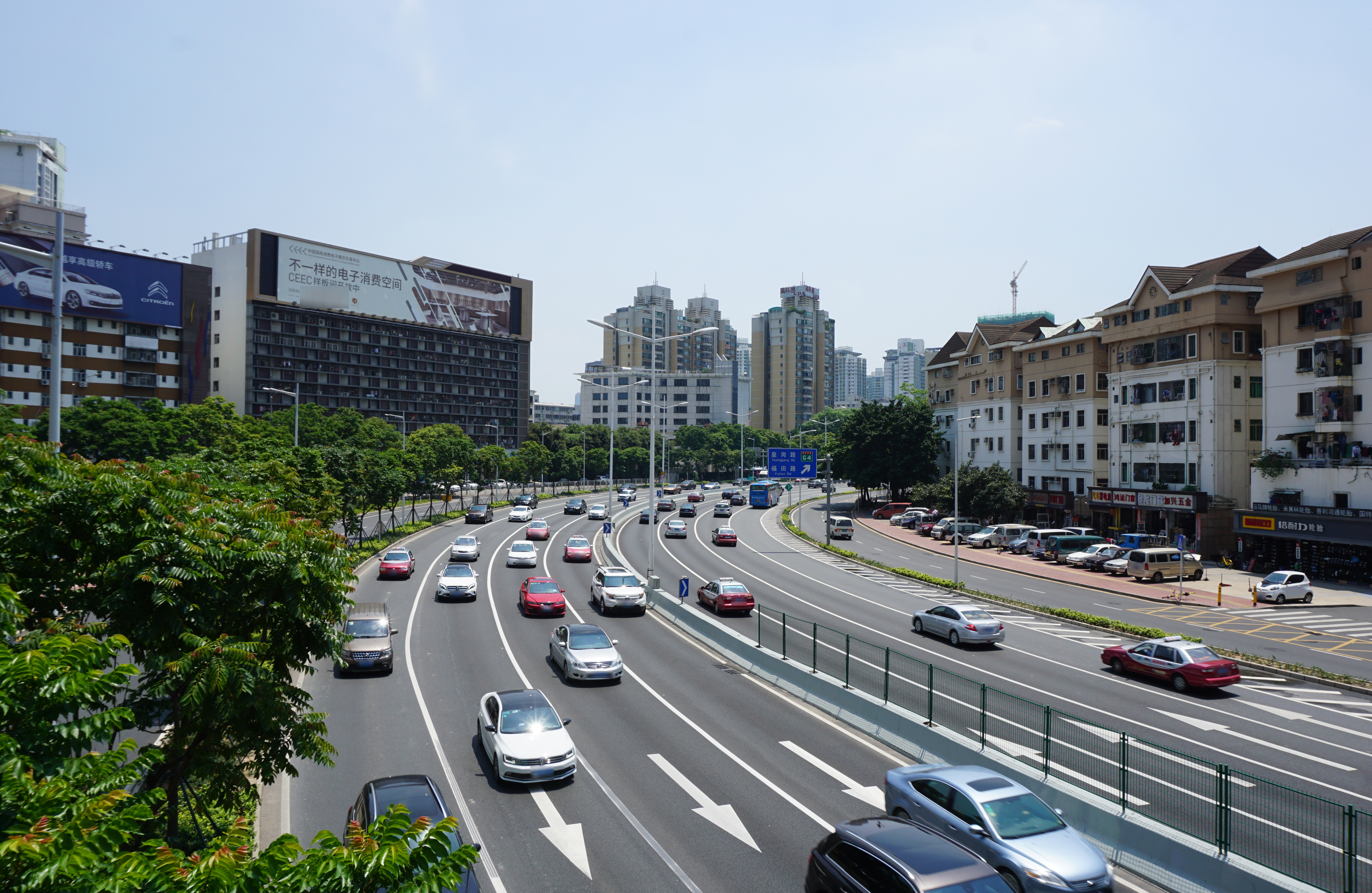 Binhe Boulevard in Futian District, Shenzhen.